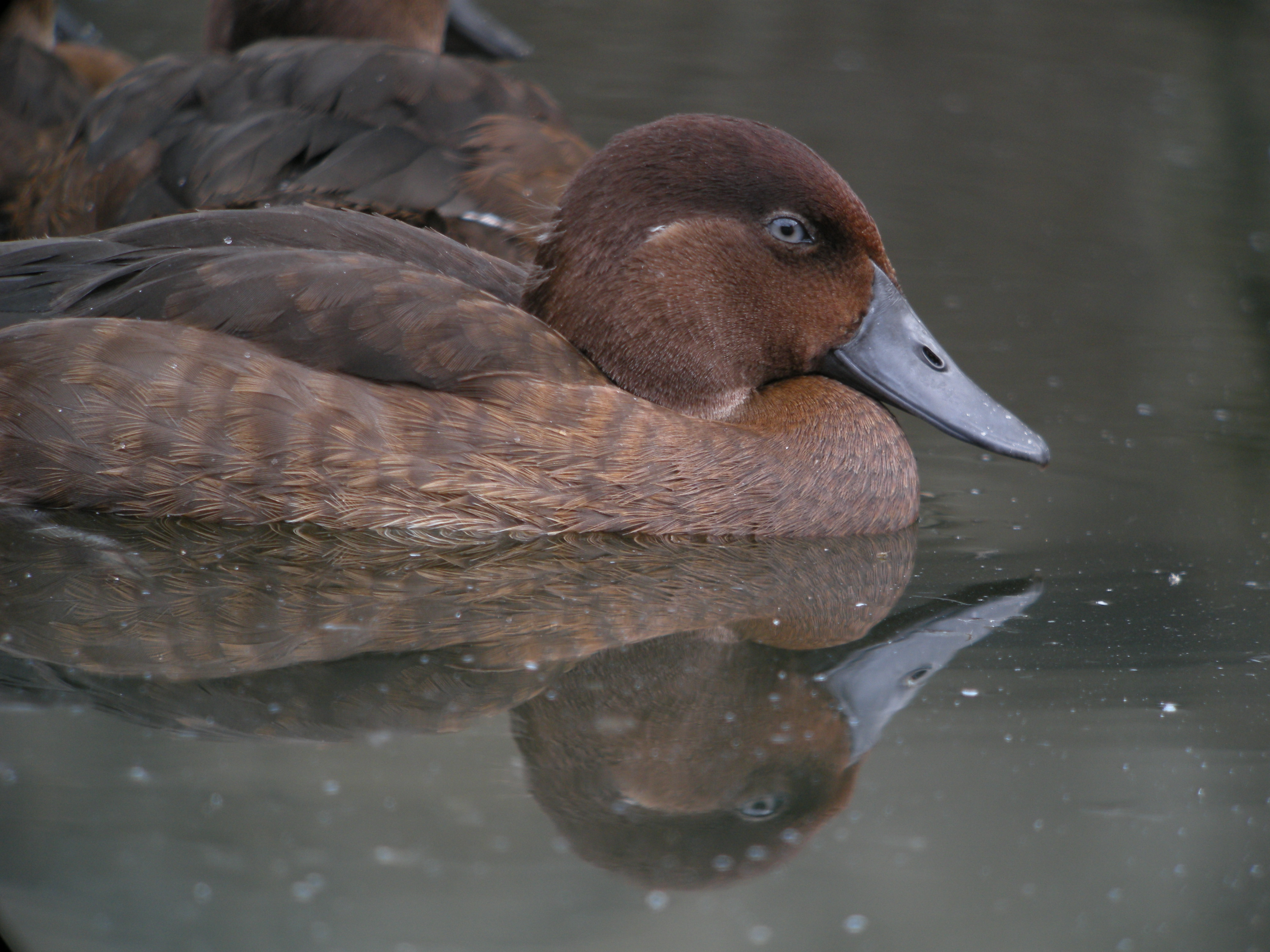 Madagascar Pochard, Captive Breeding Program, Madagascar Swarowski 80 HD 30 X, Coolpix P5100 (Adapter DCB)